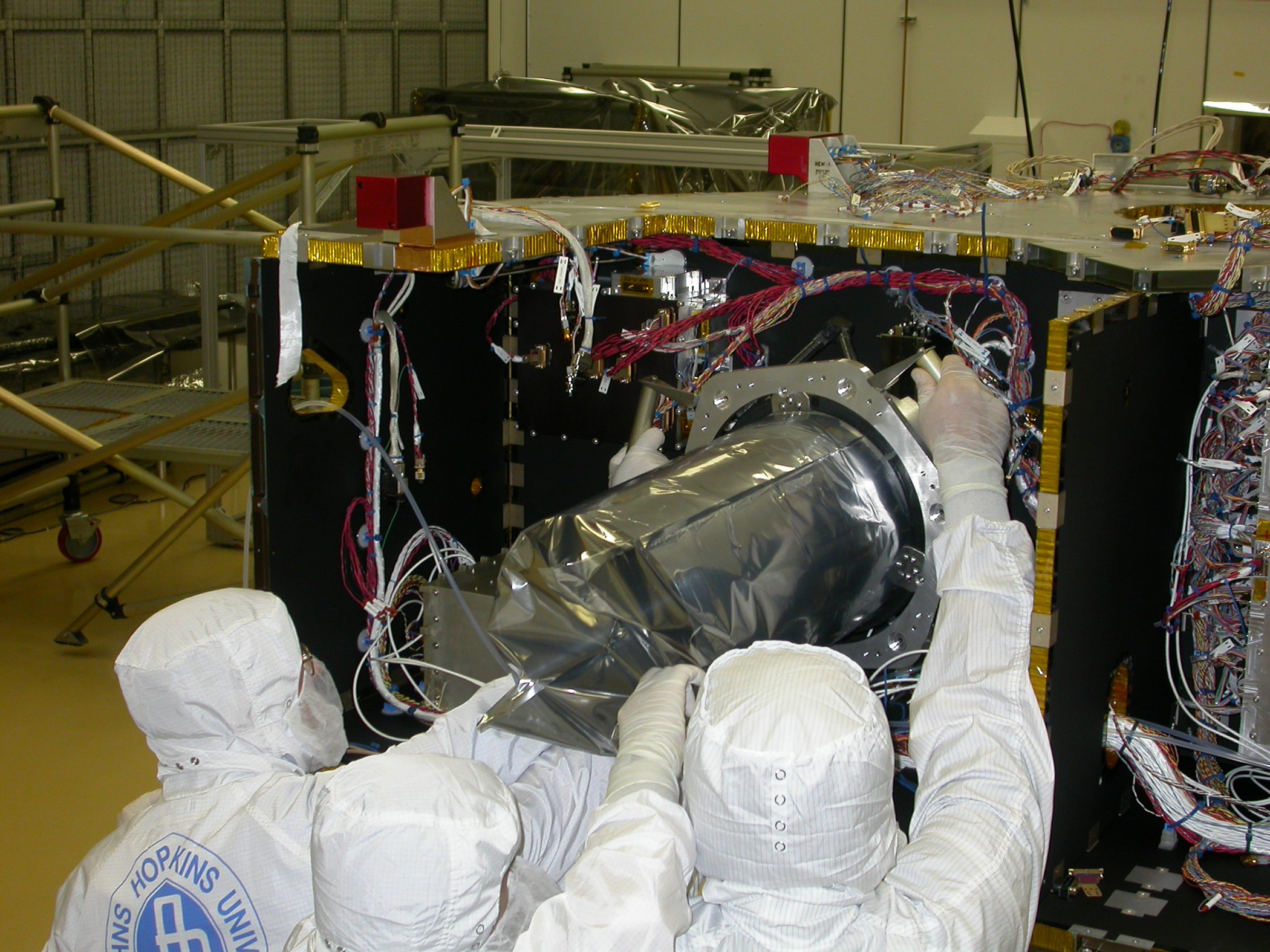 Technicians at the Johns Hopkins University Applied Physics Laboratory in Laurel, Maryland, install the Long Range Reconnaissance Imager (LORRI) on NASA's New Horizons spacecraft. The telescopic camera is one of seven science instruments designed for the Pluto flyby mission, which is planned for launch in January 2006.